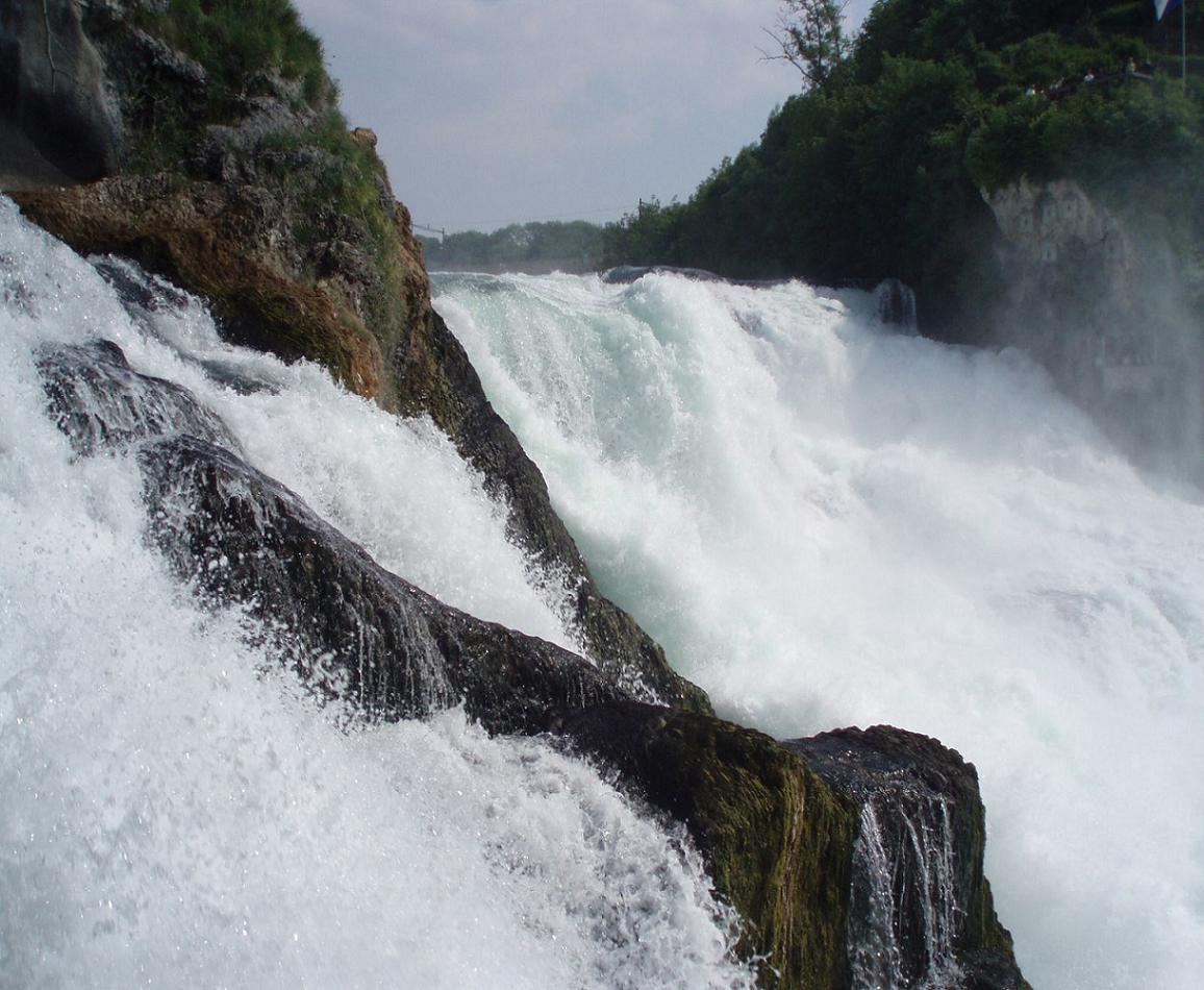 Rhine falls close up